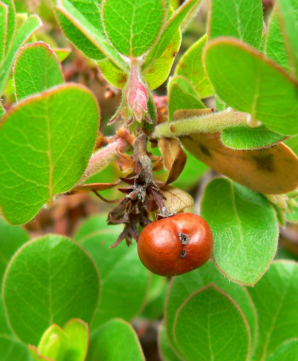 Photo of Arctostaphylos edmundsii at Regional Parks Botanic Garden